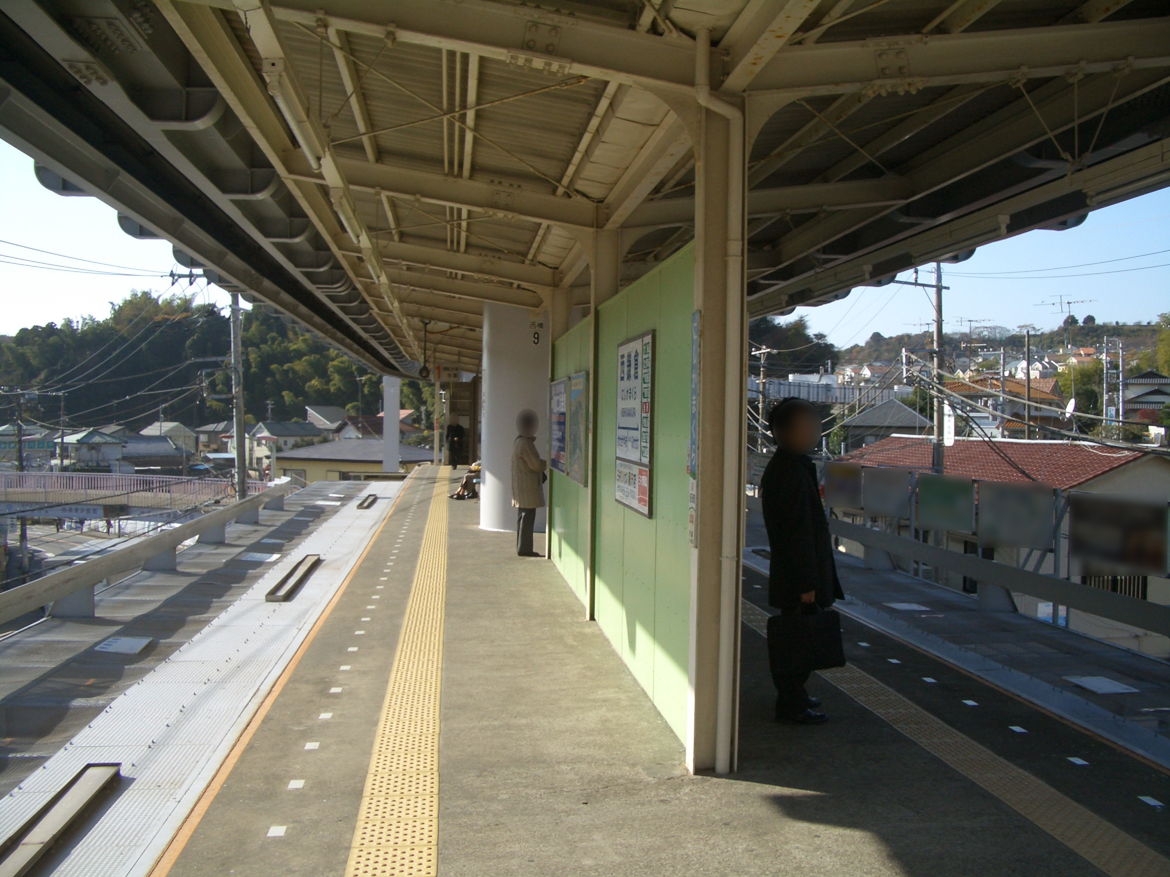 The platform at Nishi-Kamakura Station on the Shōnan Monorail Line in Kamakura city, Kanagawa prefecture, Japan